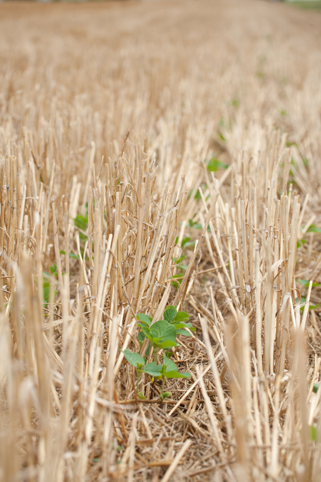 USDA Natural Resources Conservation Service photo of crop rotation and no-till planting